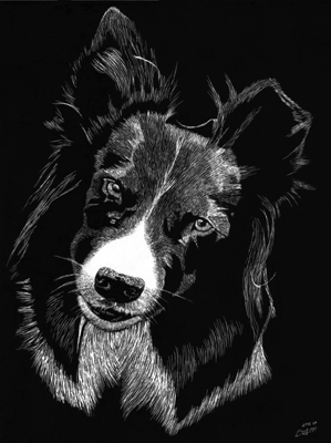 Author: Zen Hooloovoo, original artwork, no rights reserved. This file is for public use.